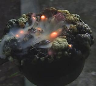 Photo taken by Joel Clifton; Sodium peroxide formations in burning sodium metal